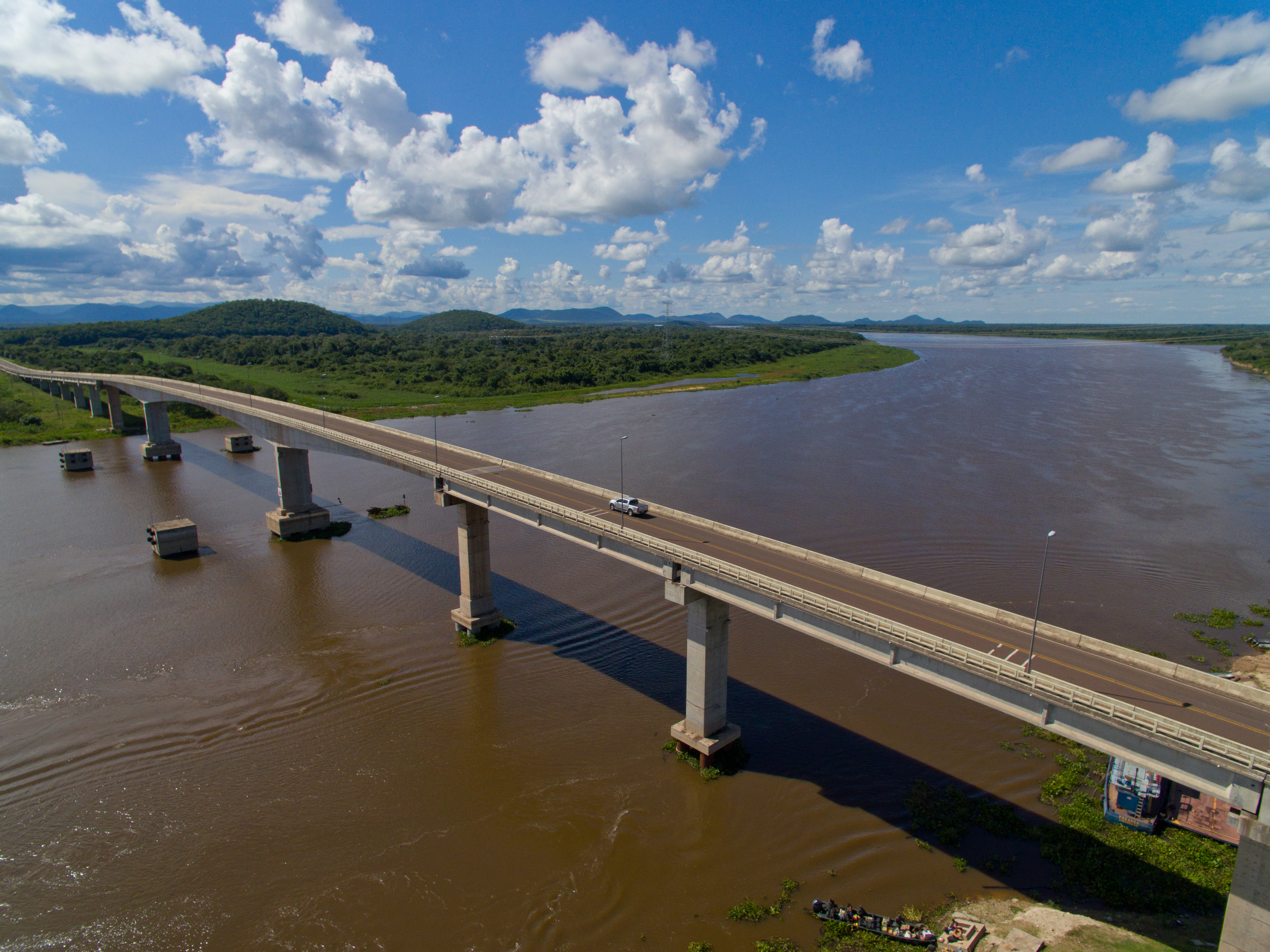 The "Poeta Manoel de Barros" bridge which crosses the Paraguay River on highway BR-262. The bridge is about 2km in length and was constructed at a cost of R$100 million. It was inaugurated in 2001. Prior ro this, all road traffic travelling to Corumbá from the state capital, Campo Grande, needed to cross the river on a slow river barge.